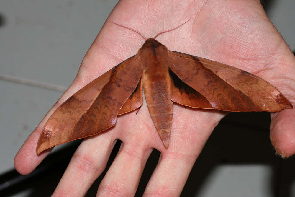 Malaysia, Fraser's Hill March 2009